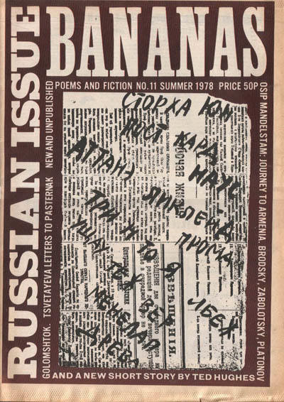 Front page of Bananas literary magazine, no 11 summer 1978, special issue of Russian literature